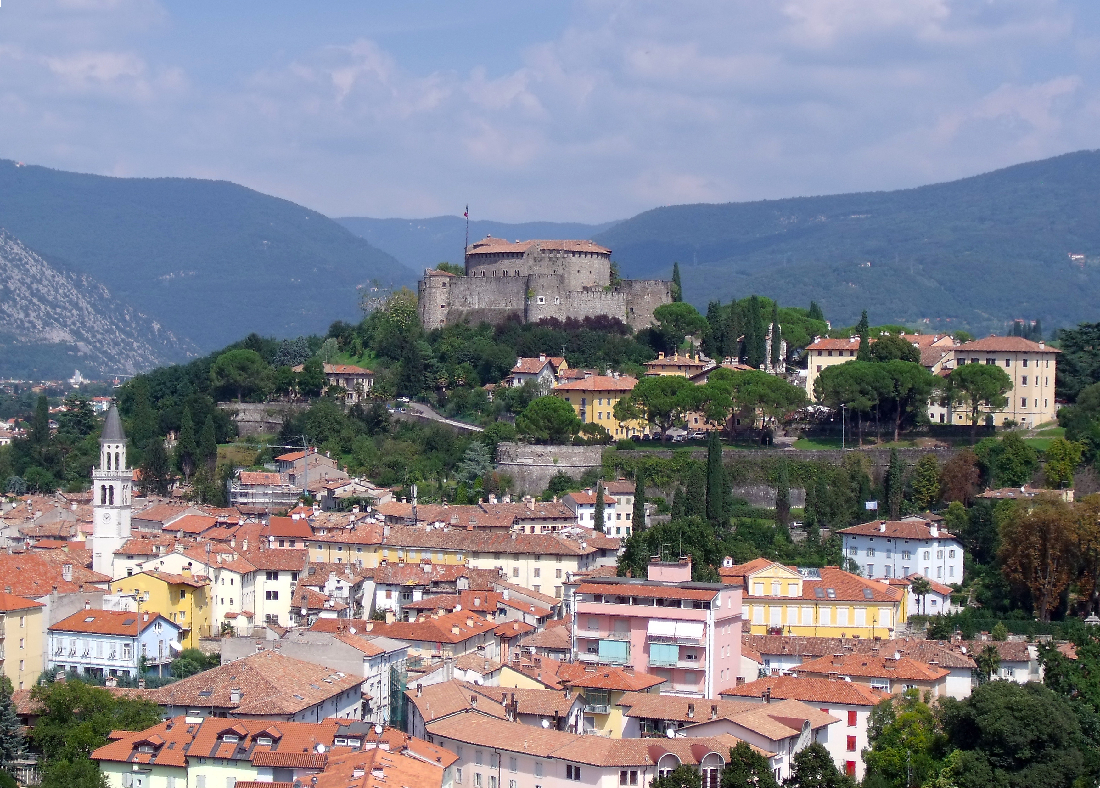 Castle of Gorizia, Italy